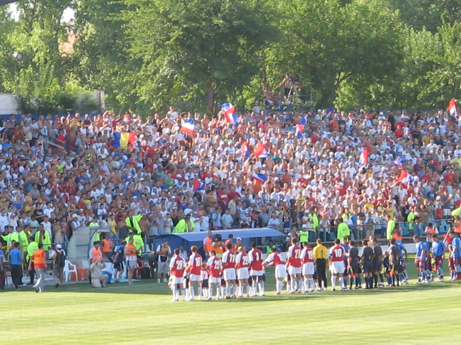 at the match Oțelul vs Trabzonspor